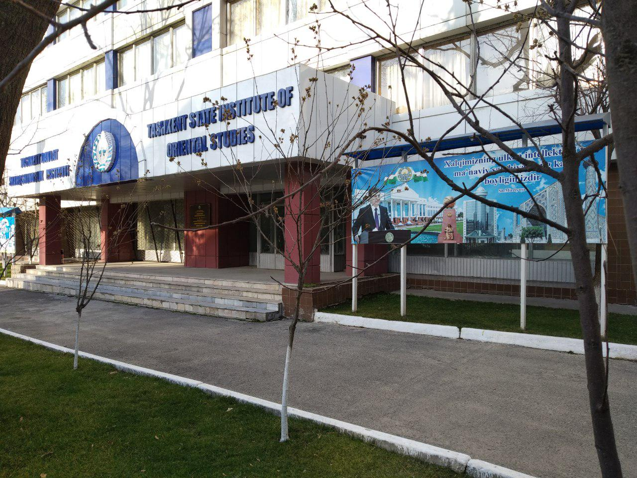 The main building of Tashkent state instituti of oriental studies. Tashkent, Mirabad district, Shakhrisabz street 25